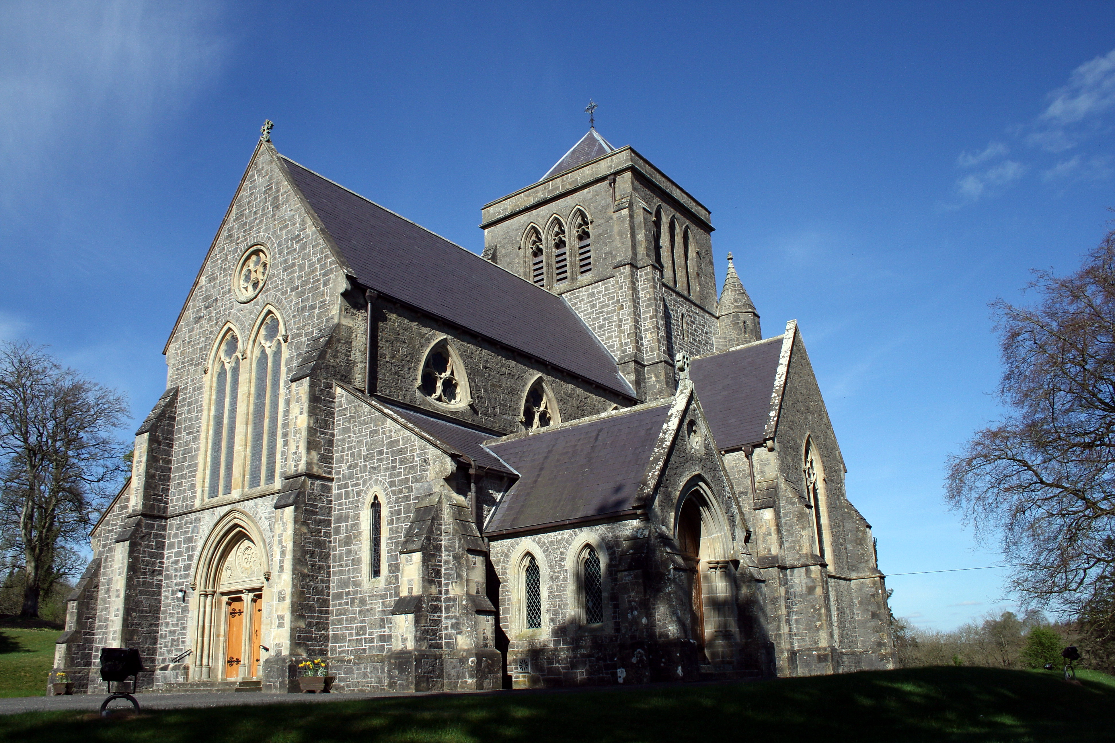 Kilmore Cathedral, County Cavan, Ireland (Church of Ireland). Designed by the architect William Slater and built in 1857–1860.